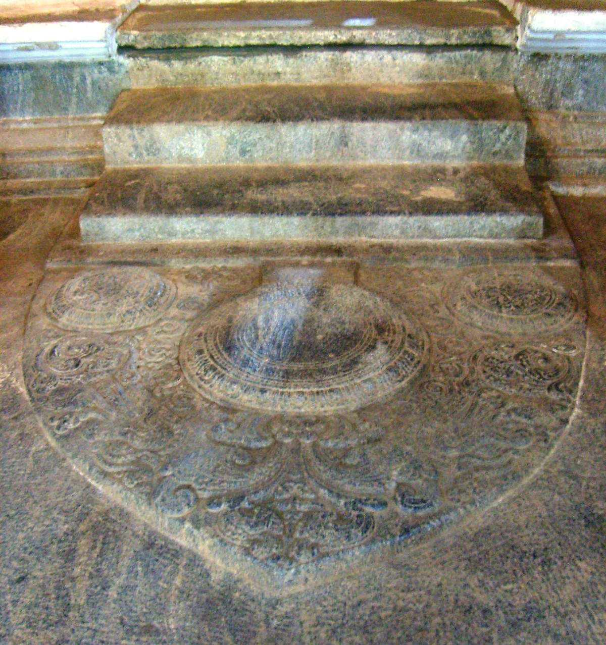 The sandakada pahana at the entrance to the Degaldoruwa temple.